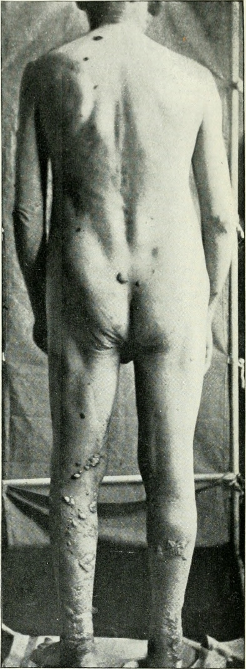 Title: The British journal of dermatology Year: 1888 (1880s) Authors: British Association of Dermatology Subjects: Dermatology Syphilis Publisher: London H.K. Lewis (etc.) Text Appearing Before Image: ' Text Appearing After Image: Fig. o. Fig. TO ILLUSTRATE DR. SIBLEYS ARTICLE ON SO CALLED MULTIPLEH/EMORRHAGIC SARCOMA. A CASE OF SO-CALLET) MULTIPI/E HiT^IMORRHAGIC SARCOMA. 333 tumours aro disappearing, especiiilly one or two on liis right arm, andthe lesion on tlie dorsum of the right hand is obviously receding. Iapplied diathermy fulguration to one of the tumours on his leftshoulder some fourteen days ago and a half-pastille dose of X-rays tothree others ten days ago. Pathologists report.— (1) Section of pigmented nodule removedfrom back. The layers of the epidermis are slightly atrophic. Thedermis is composed of masses of spindle-shaped and round cells,which appear to be separated by a fibrous connective-tissue ; nomitosis is seen. There is a marked vascular dilatation and a depositionof blood-pigment apart from the vessels themselves. The growthappears to be of connective-tissue origin, associated with pigmenta-tion, with no true sarcomatous cells present. (2) Examinationof urine : Result normal. (3) Wasse